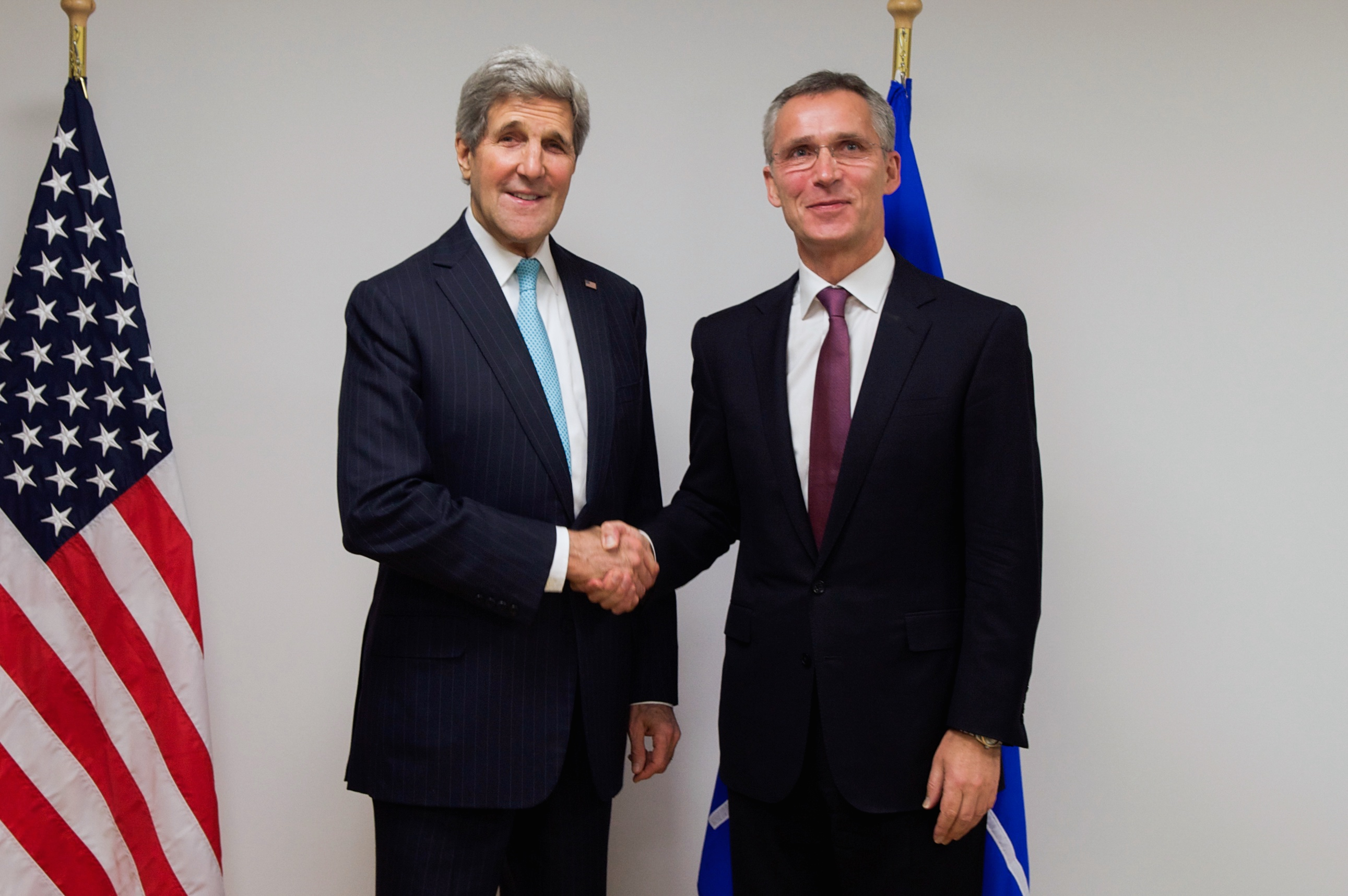 U.S. Secretary of State John Kerry shakes hands with newly elected NATO Secretary General Jens Stoltenberg before a meeting amid a series of multinational discussions on December 2, 2014, at NATO Headquarters in Brussels, Belgium.